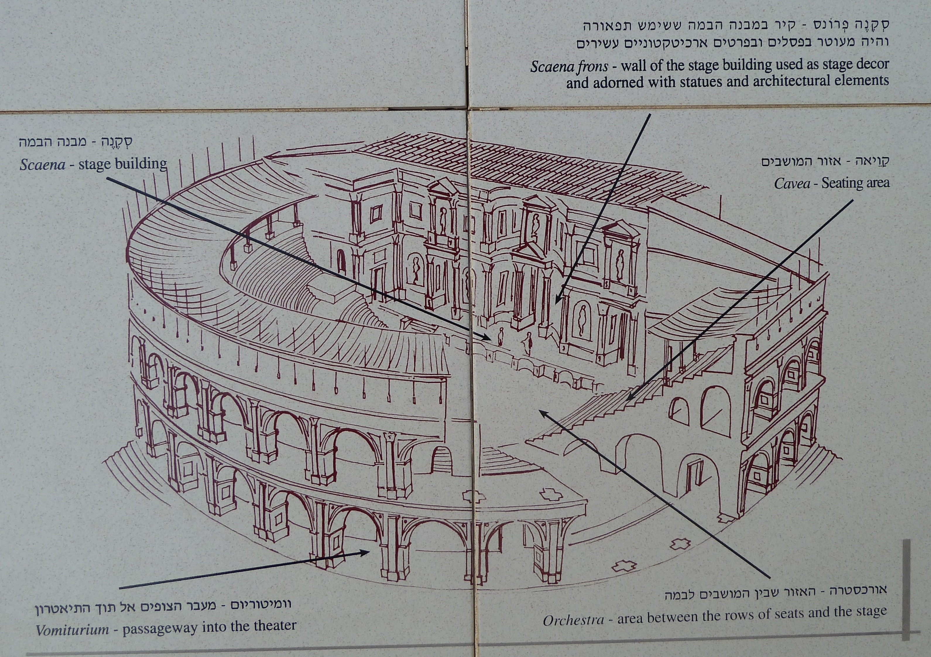 Caesaria - Roman Theatre